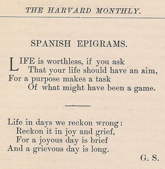 Poem by George Santayana, one of six Harvard seniors to found the literary journal The Harvard Monthly